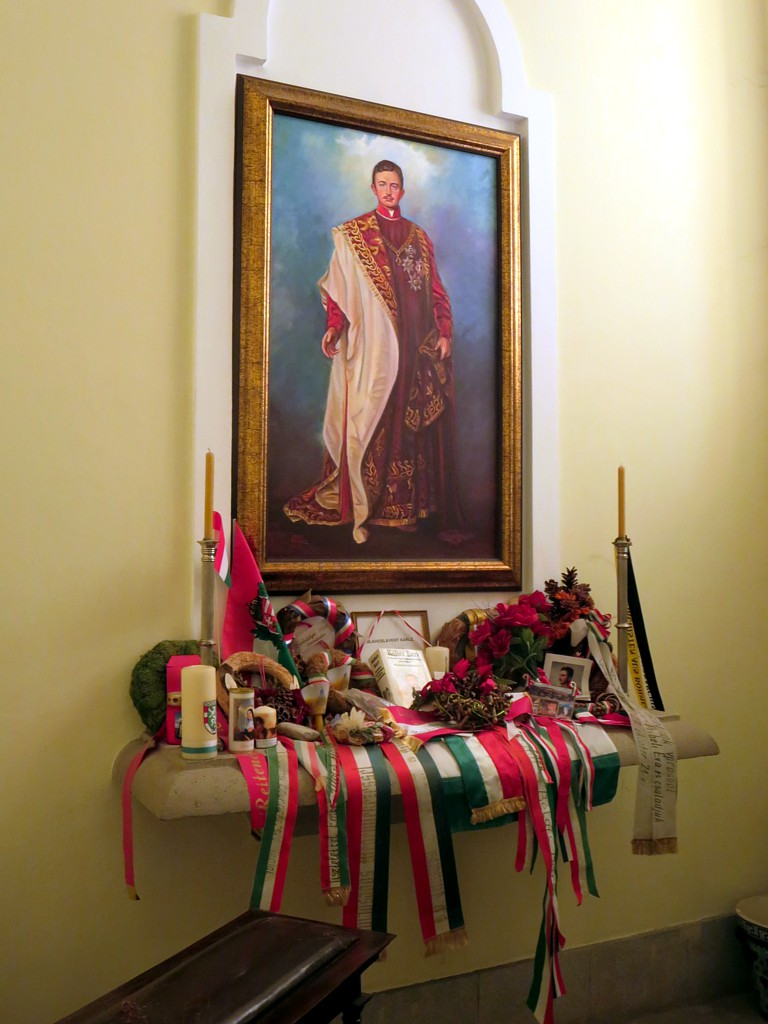 Charles I (1887-1922), the last Hapsburg Emperor of Austria and King of Hungary, is buried in the Igreja de Nossa Senhora do Monte overlooking Funchal, Madeira.